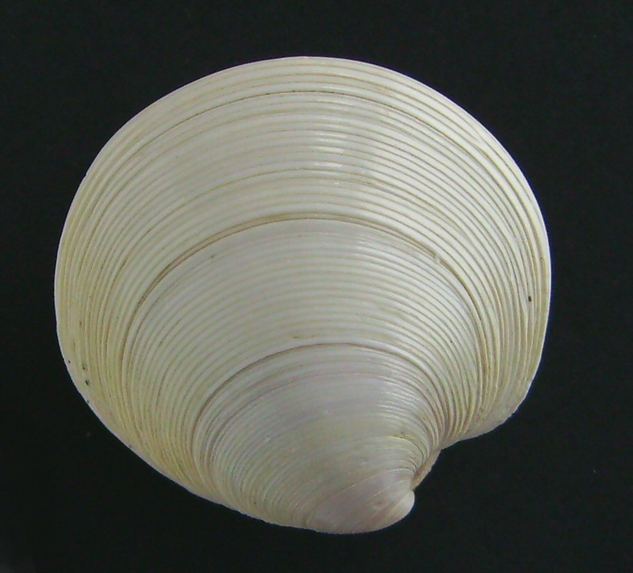 Dosinia maoriana dreged from north of Pakiri, New Zealand. This work has been released into the public domain by its author, Graham Bould. This applies worldwide.In some countries this may not be legally possible; if so:Graham Bould grants anyone the right to use this work for any purpose, without any conditions, unless such conditions are required by law.